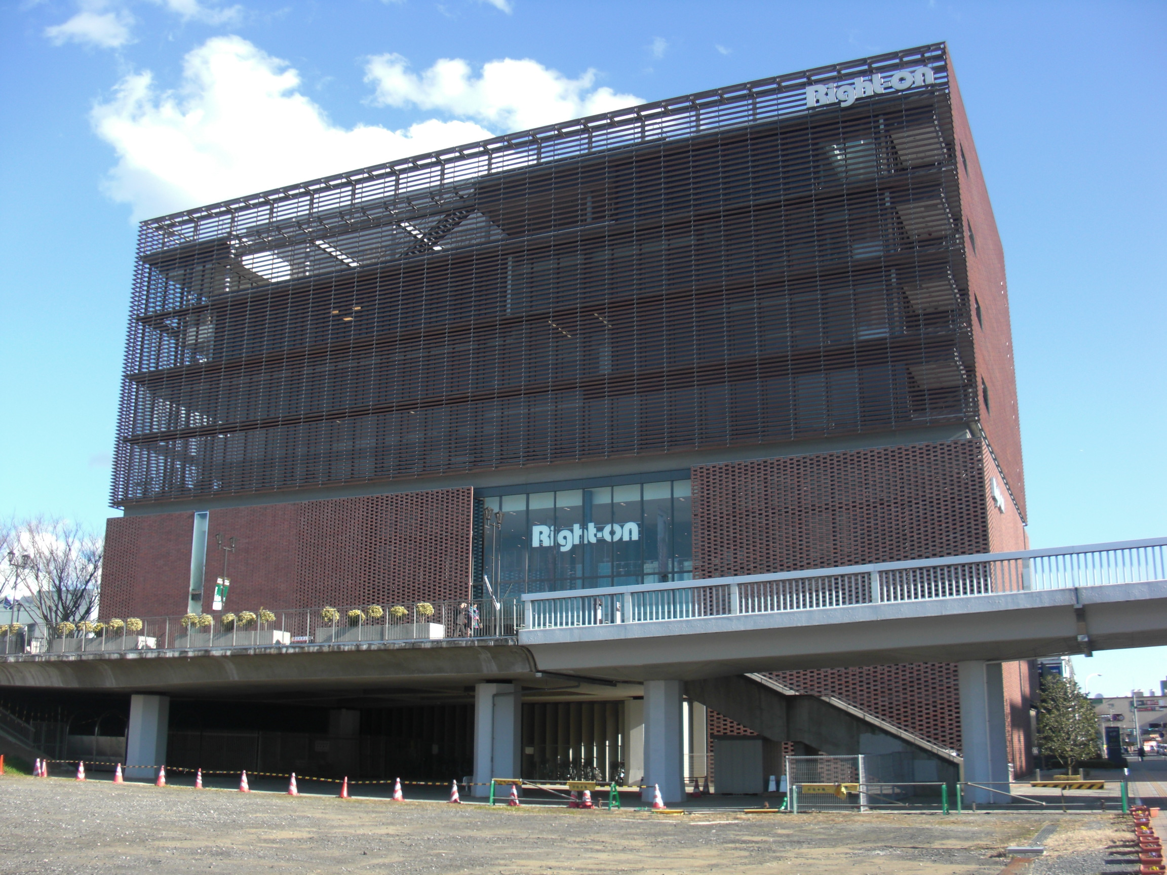 This photograph is a headquarters of Right-on that is the enterprise that practices the apparel sales industry.